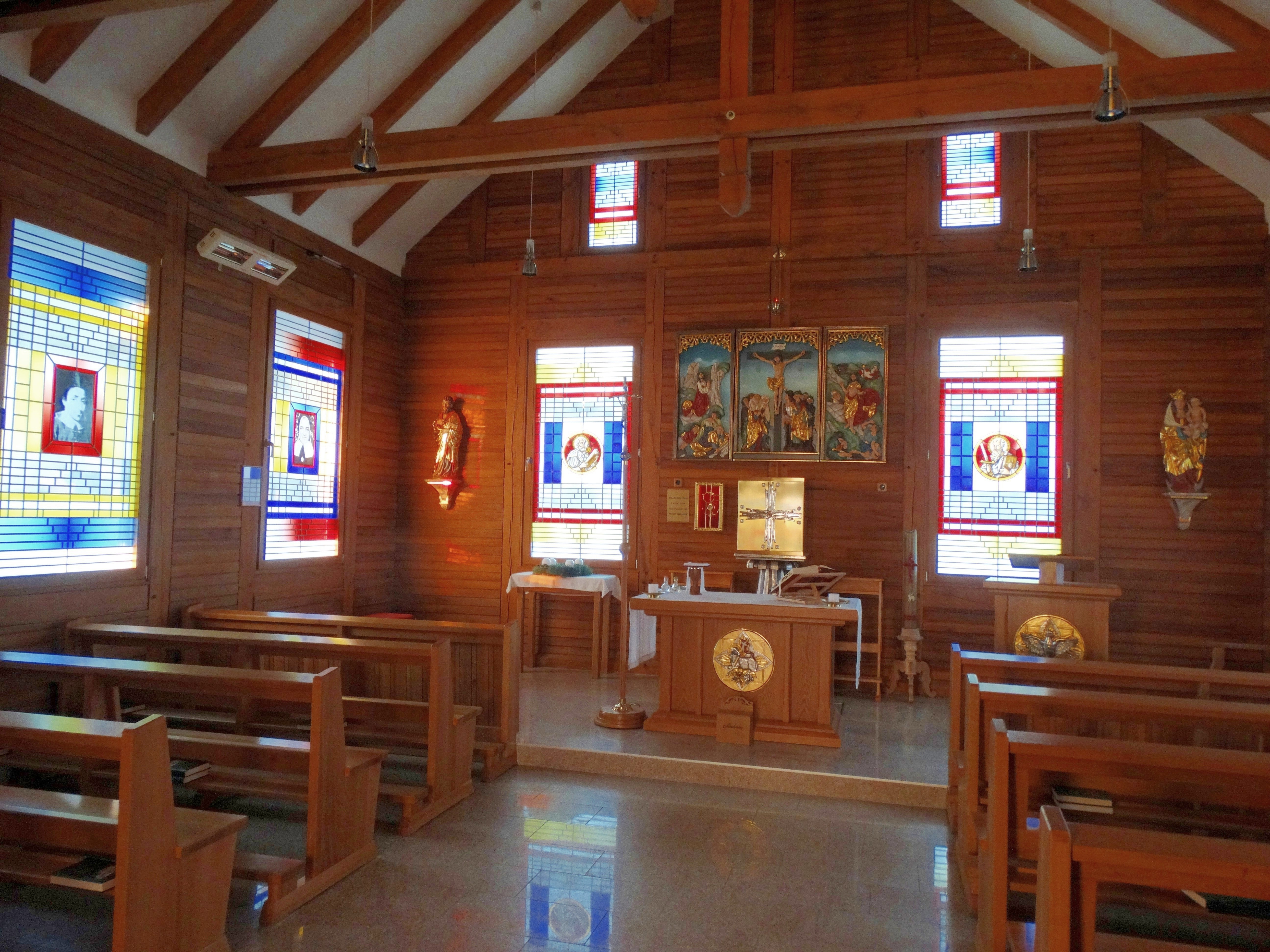 Pope John Paul II Parish Chapel, Marijampolė, Lithuania